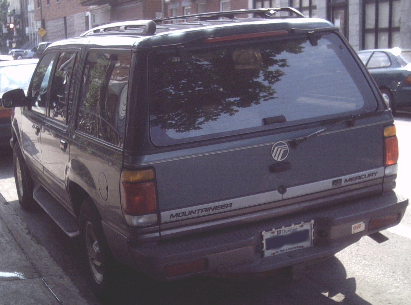 1997 Mercury Mountaineer photographed in Montreal, Quebec, Canada.